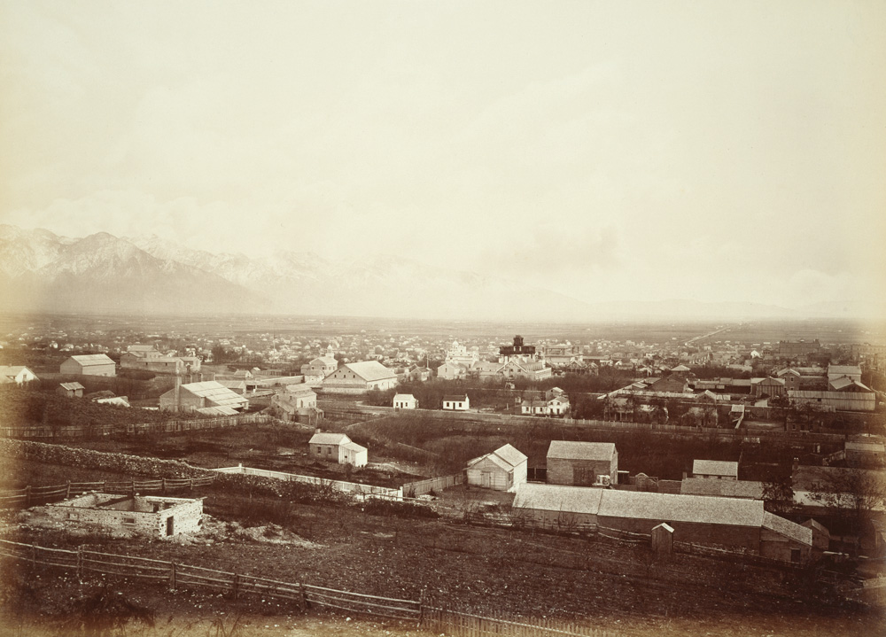 An album by Carleton E Watkins (1829-1916), one of the finest American landscape photographers of the nineteenth century.